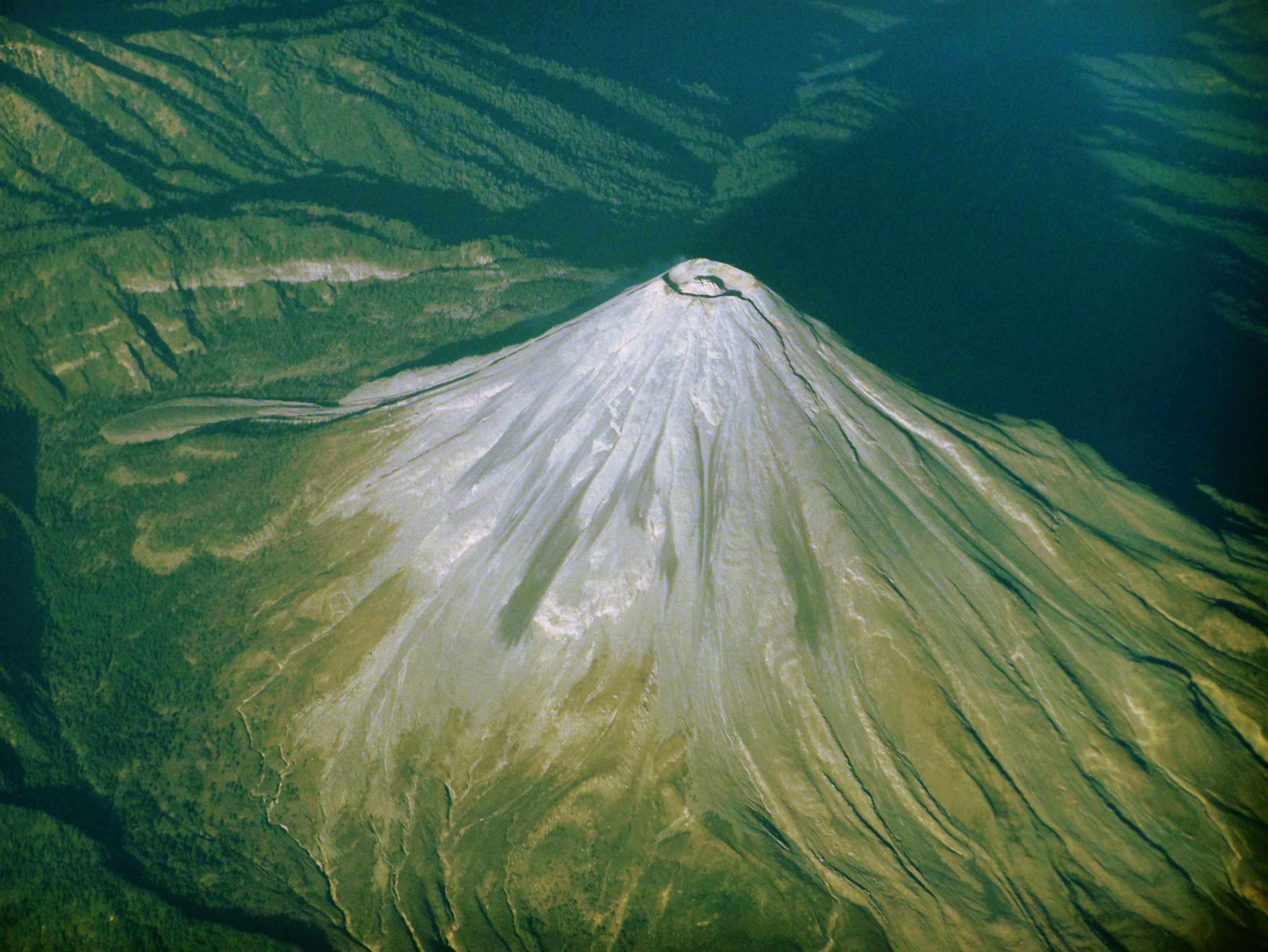 Aerial view of Colima volcano. This version is an edit of File:Colima volcano aero.jpg with color curves adjusted.